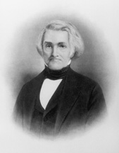 Jeremiah Morrow (1771 – 1852), 9th Governor of Ohio.